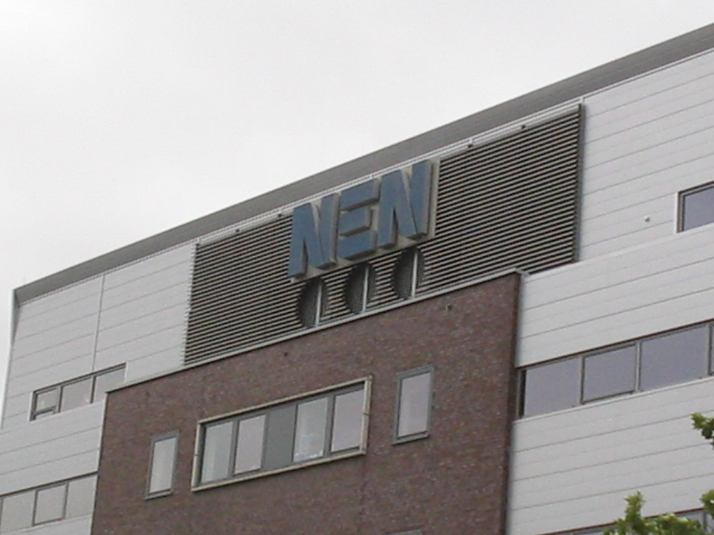 Logo NEN institute, Delft (Netherlands)